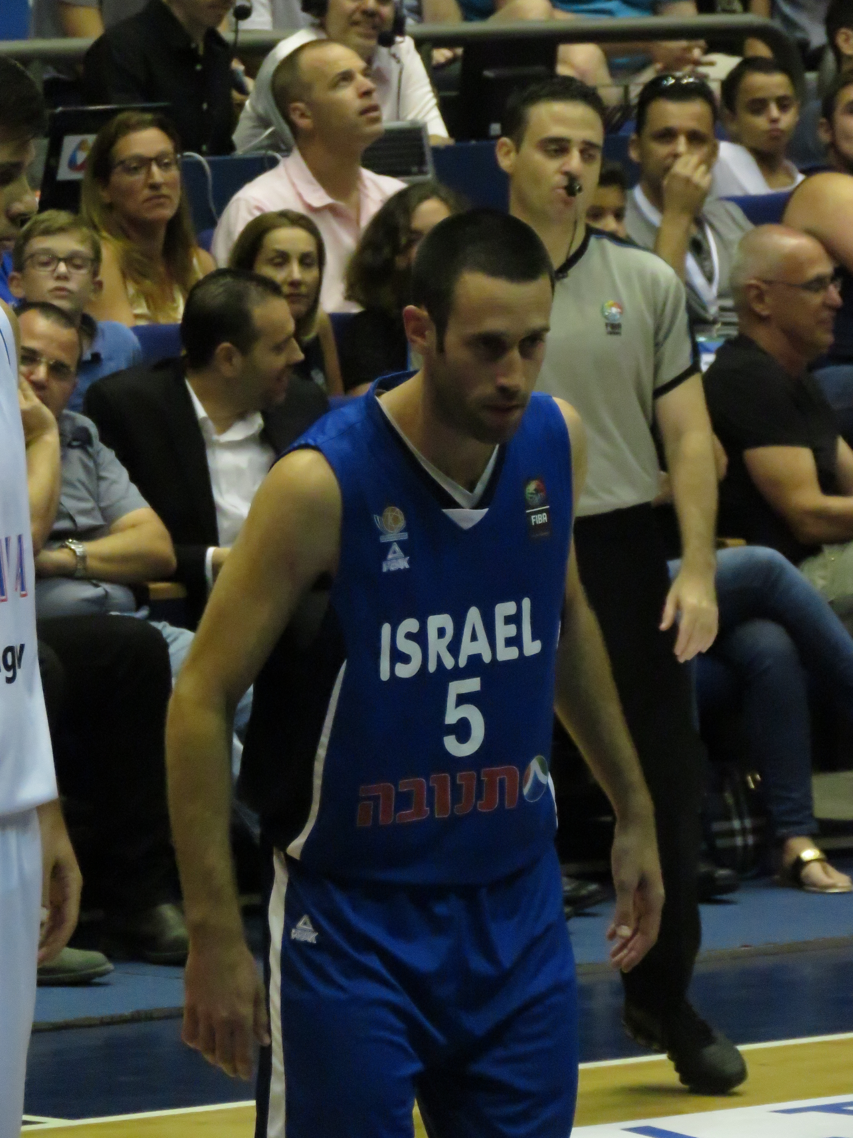 Israel vs. Serbia - August 23, 2015